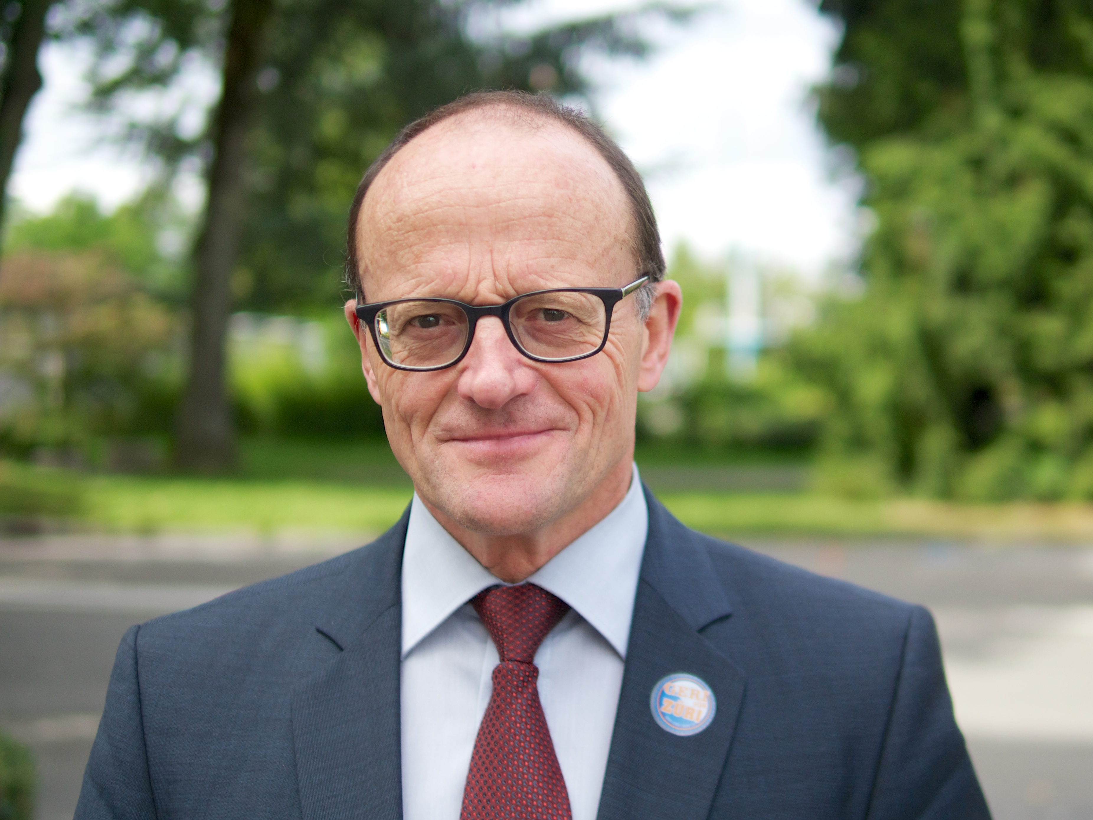 Gerold Lauber, member of the communal executive (government) of the city of Zurich at a campaign event of his party (CVP)